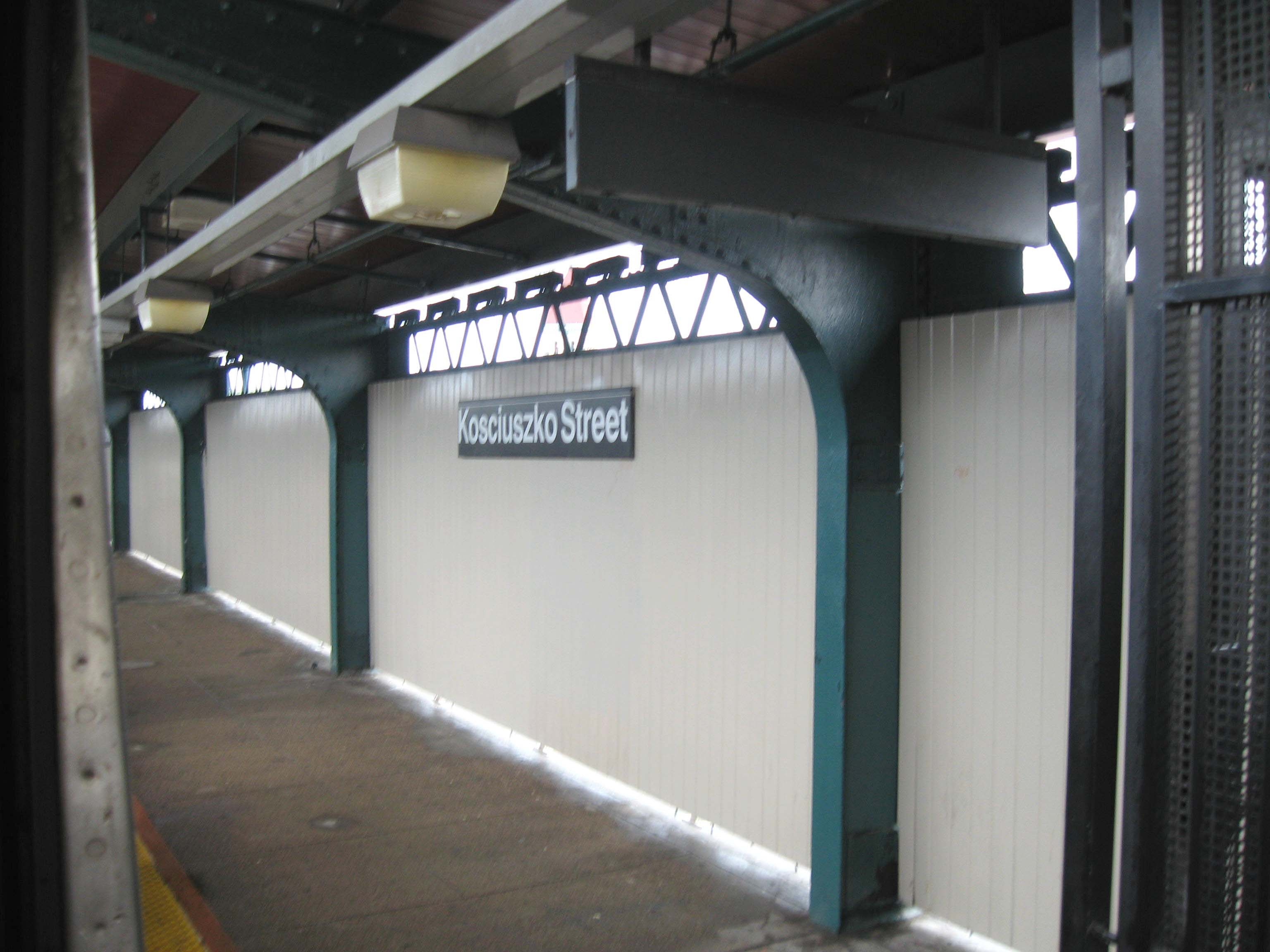 Looking southeast at western part of northbound platform of Kosciuszko Street (BMT Jamaica Line) on a rainy midday August 2, 2008. See also File:Kosciuszko BMT J st jeh.JPG.